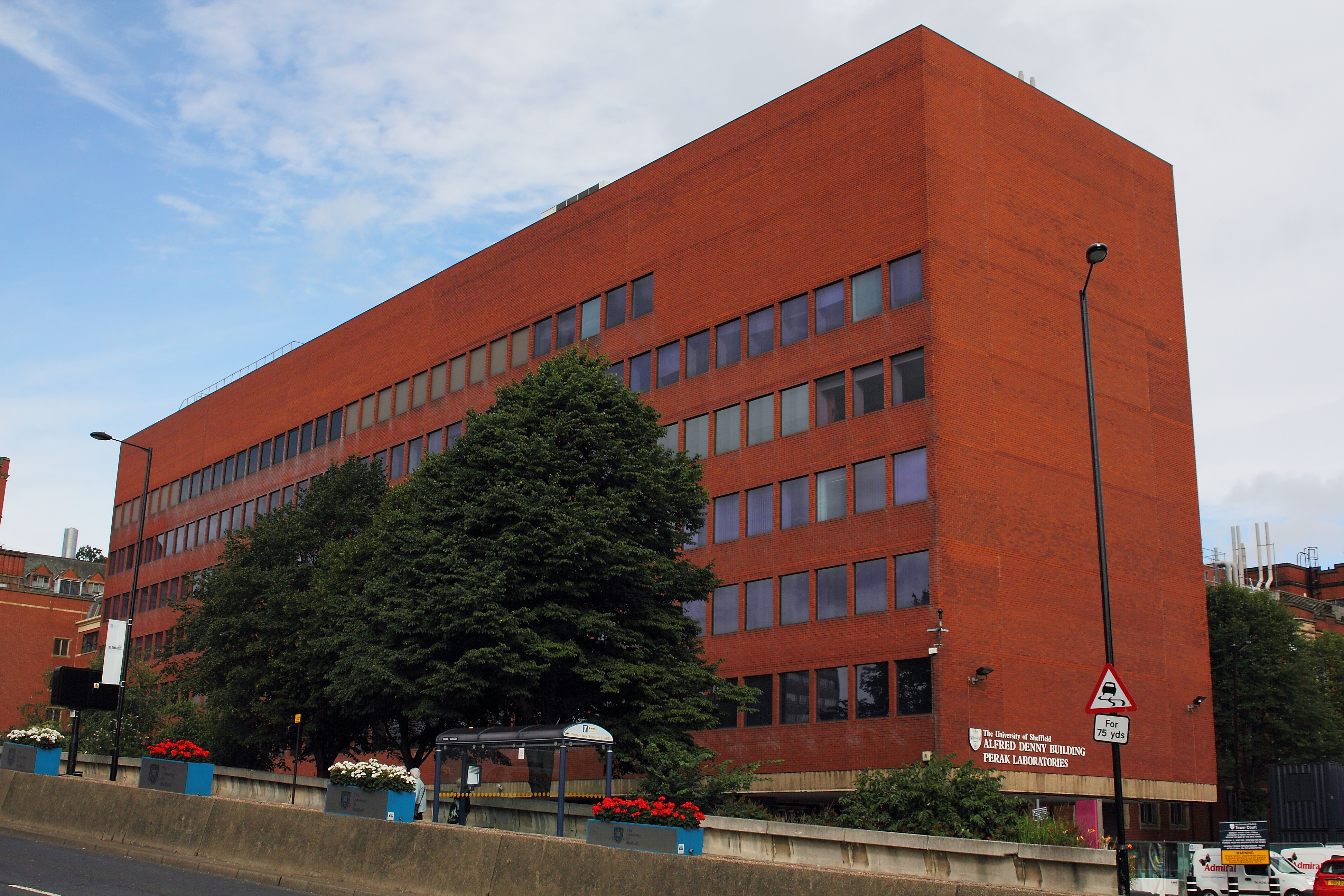 Shefunialfreddenny2012